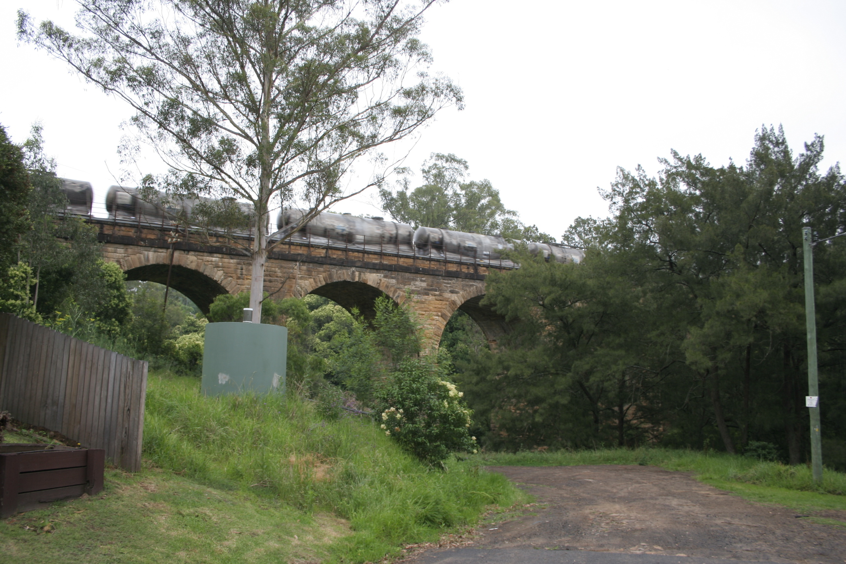 Picton railway viaduct located near Picton station.